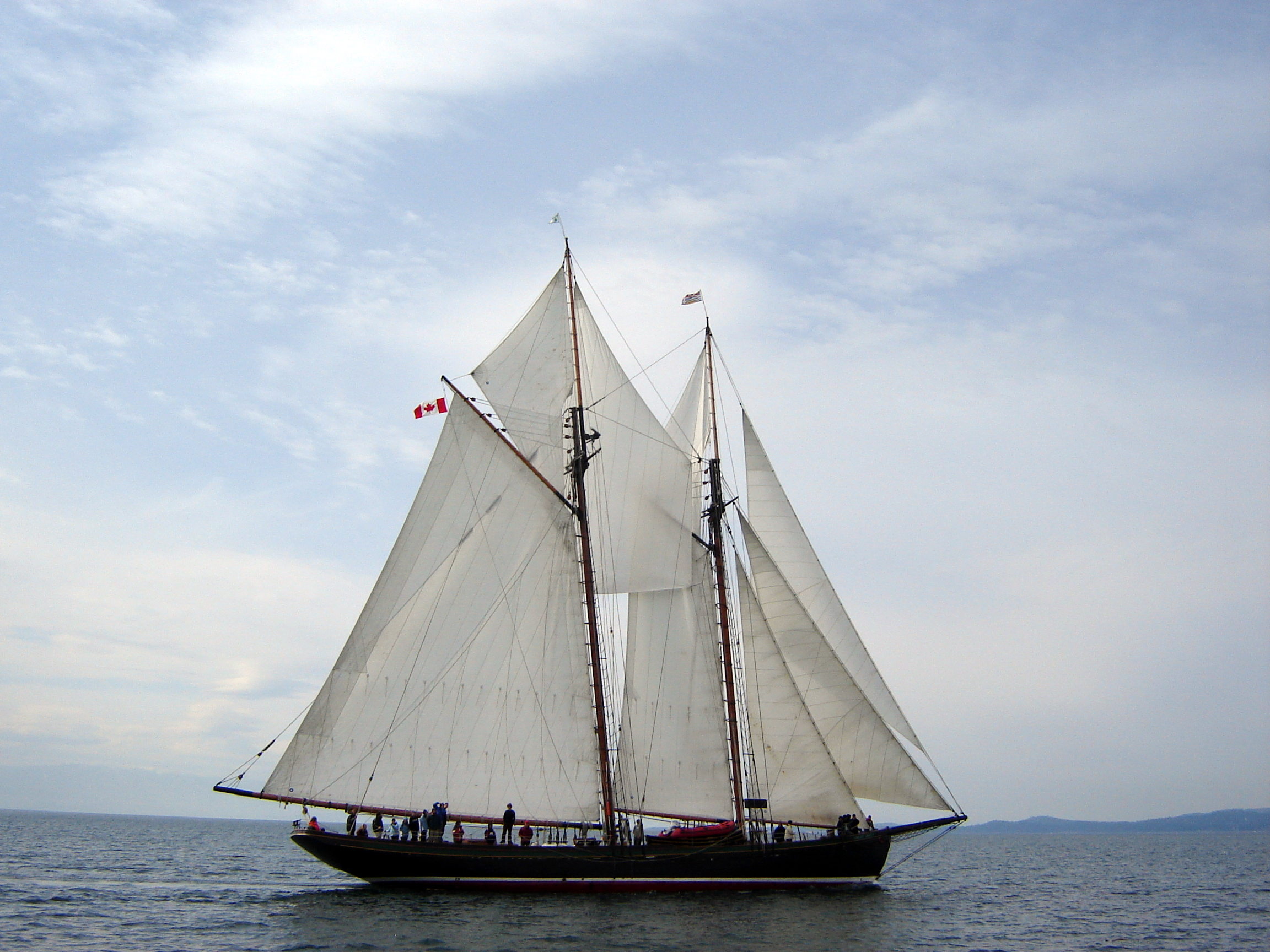 Photo taken by Graham Kingsley